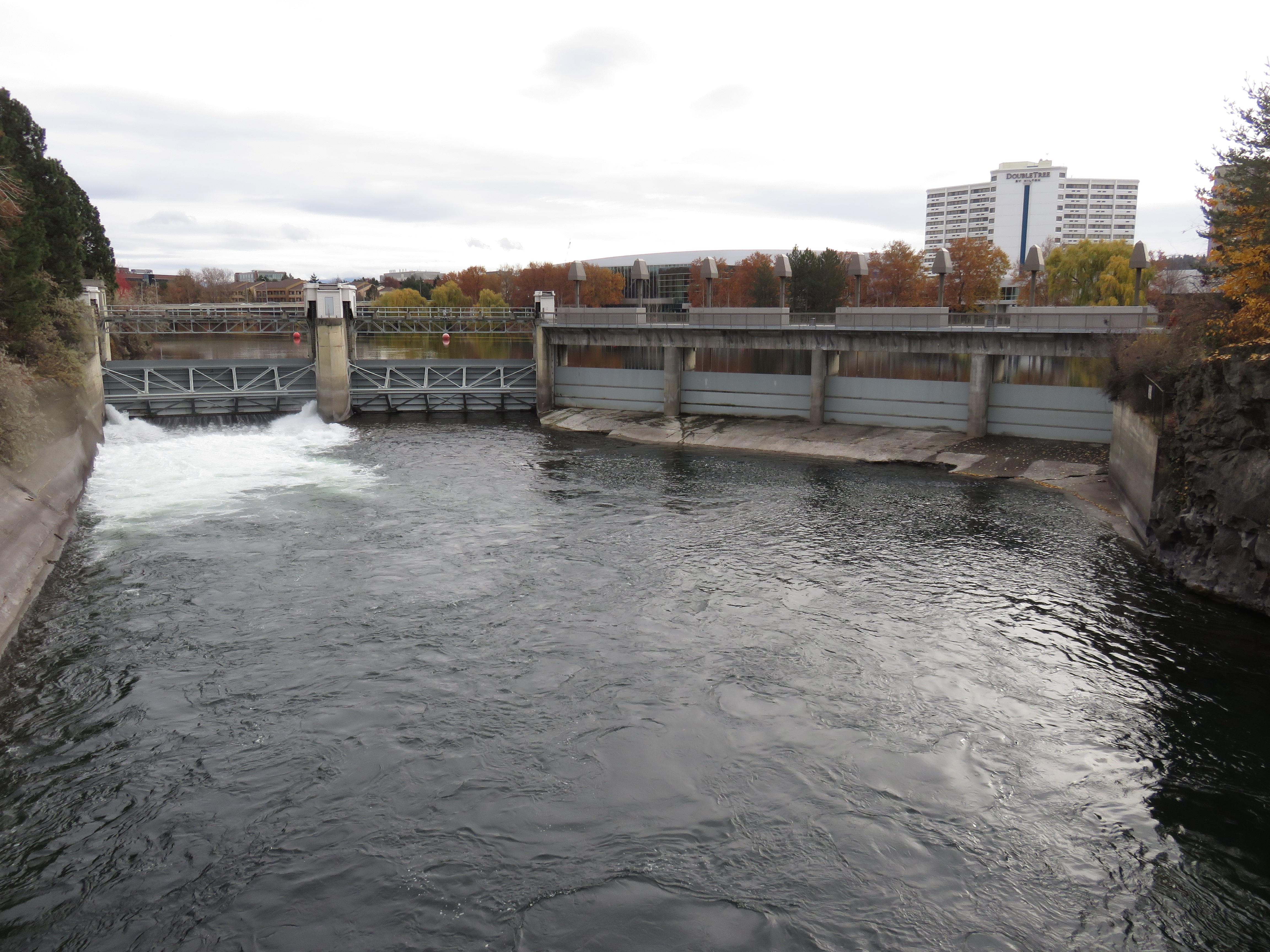 Downriver side of Upper Spokane Falls Diversion Dam in 2018